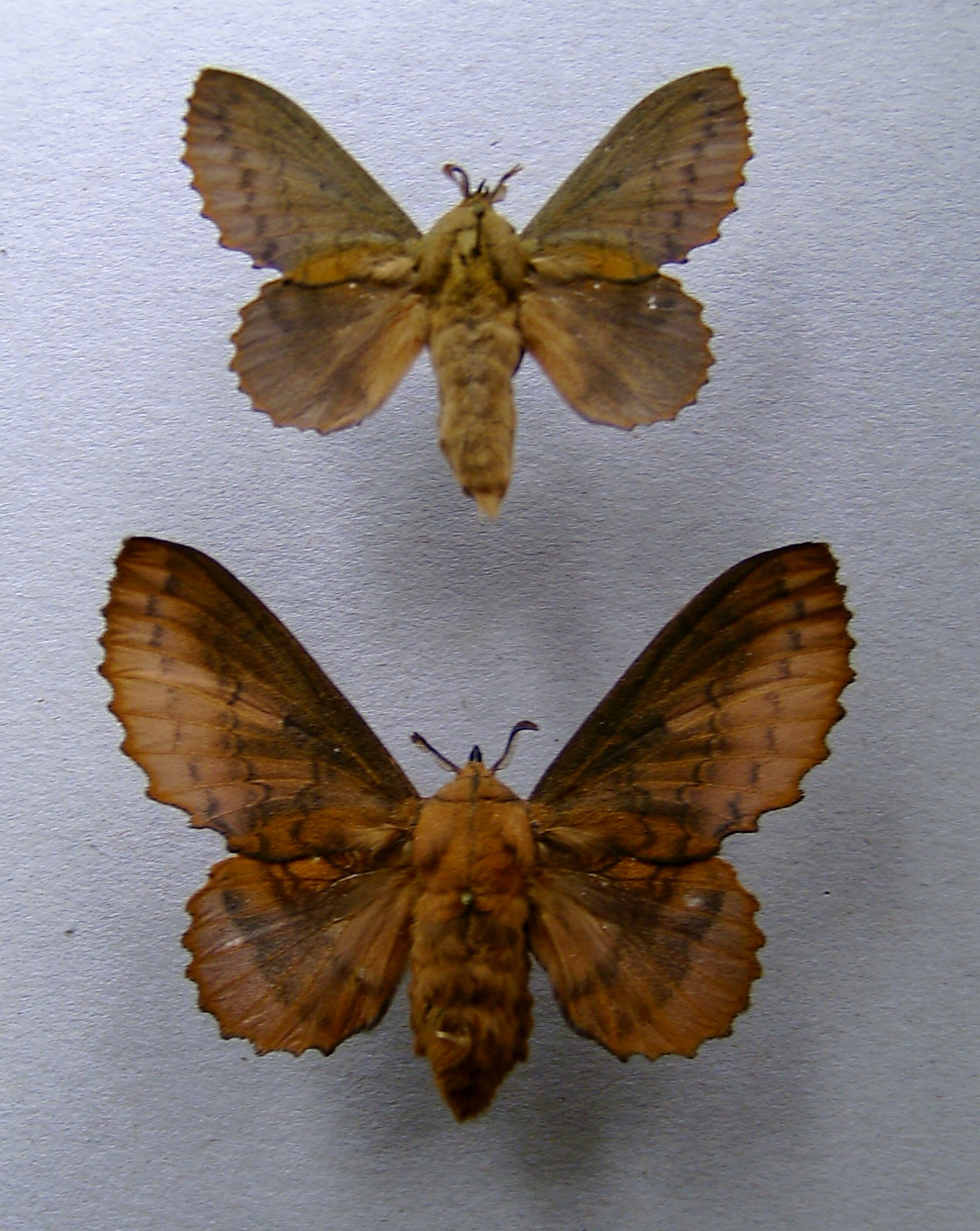 Gastropacha quercifolia